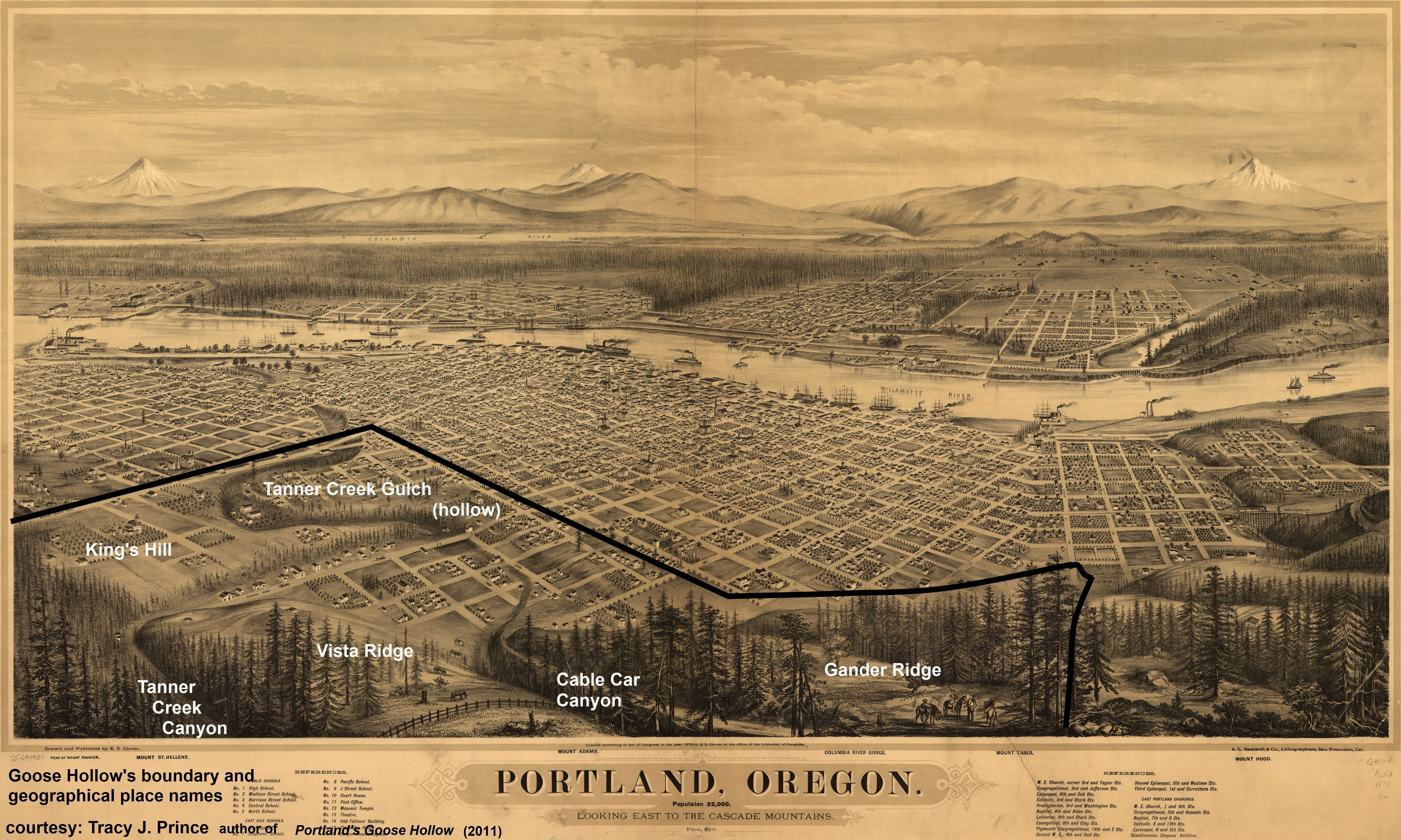 Goose Hollow's contemporary boundaries and geographical place names overlaid onto an 1879 map. This map shows the now infilled hollow (Tanner Creek Gulch) in incredible detail.